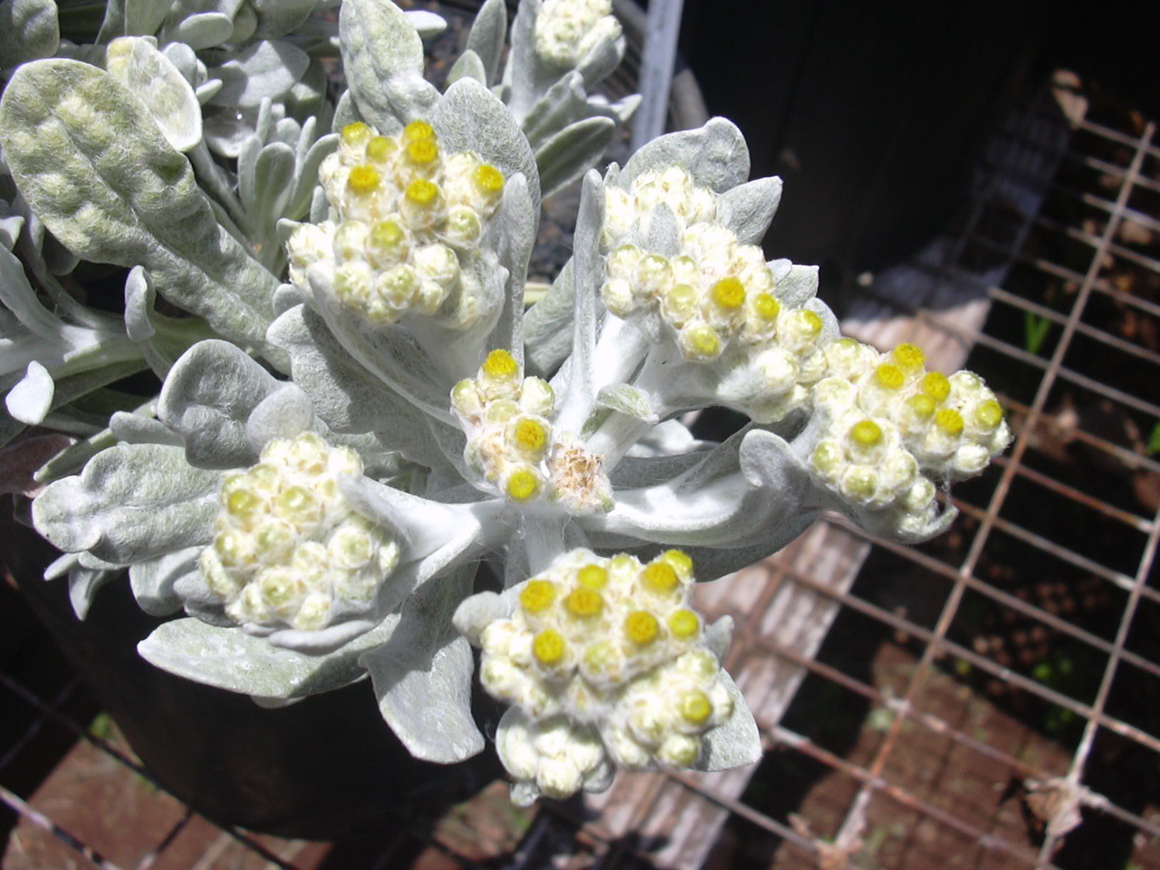 Gnaphalium sandwicensium (flowers from Papanalahoa Pt). Location: Maui, State nursery Kahului